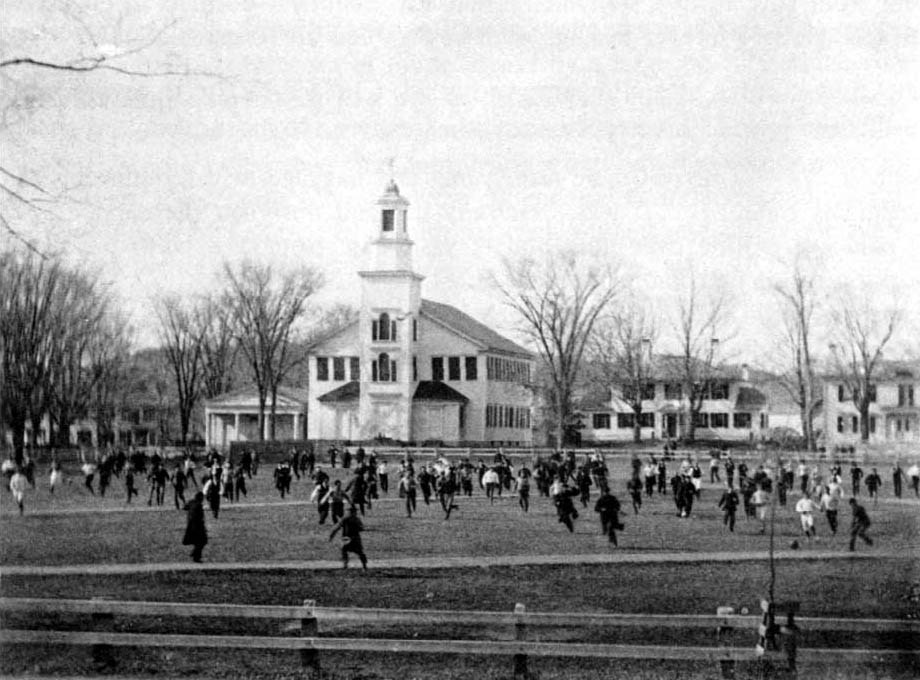 Photograph of an "old division football" (a form of Medieval football) being played on the Green at Dartmouth College in Hanover, New Hampshire. On the image, players run toward the western goal, off the left edge of the photograph.